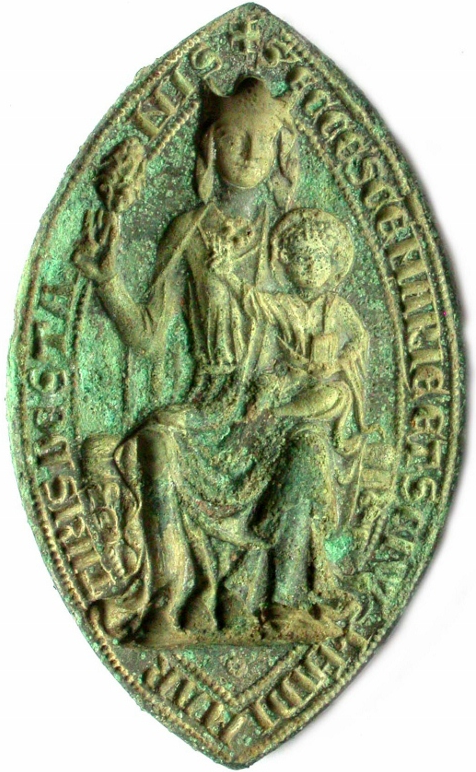 Seal of Stone Priory in Staffordshire, 13th/14th c. In August 2011 a 13th-century bronze seal, used by the Prior to seal legal documents with wax, was found by a metal detectorist in a field near Cobham in Surrey. Mandorla-shaped, as in the shape of an almond, customary for ecclesiastical seals, it depicts the Virgin Mary seated, holding up in her right hand a palm-frond of martyrdom. On her knee sits the infant Christ, with halo, holding in his left hand an object, possibly a bound book of the gospels or a model of the Priory Church building at Stone, his right hand raised with two fingers giving a sign of blessing. All is circumscribed by a Latin inscription: S(igillum) ecc(lesia)e S(an)c(ta)e Mari(a)e et S(an)c(t)i W(u)lfadi Martiris de Stanis" ("the seal of the church of Saint Mary and Saint Wulfad, Martyr, of Stone"). The seal was named as the 17th best historical find in the UK on Britain’s Secret Treasures, a collaboration between the British Museum and ITV television. The Stone Historical Society and churches within the town of Stone raised the £8,000 funding target required to secure the seal's permanent display in Stone. This was the result of a whirlwind of fundraising events over several months, including the sale of wax imprints of the seal. Stone Town Council donated £1,000 to the fund. Philip Leason, chairman of Stone Historical Society, said: "I am absolutely delighted that we are able to keep this important part of the heritage of Stone in the town. I would like to thank everyone who has contributed to the fund. We have now started on the second phase of fundraising to buy a case in which to display it (the one it is in at the moment is borrowed) and to have a some conservation work done on the seal".